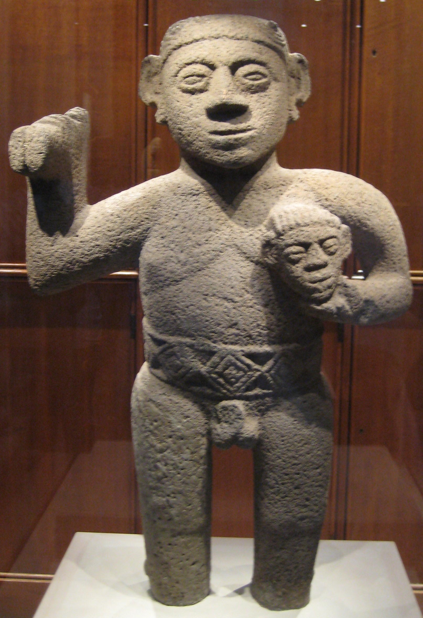 Stone figurine of a warrior holding a trophy head, from Costa Rica, AD 1000-1500.